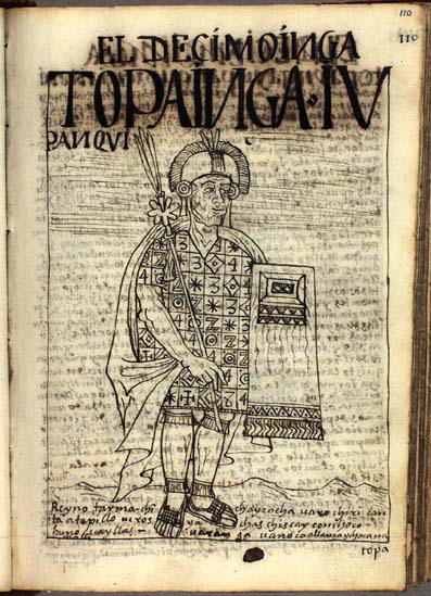 Illustration from the book El primer nueva corónica y buen gobierno